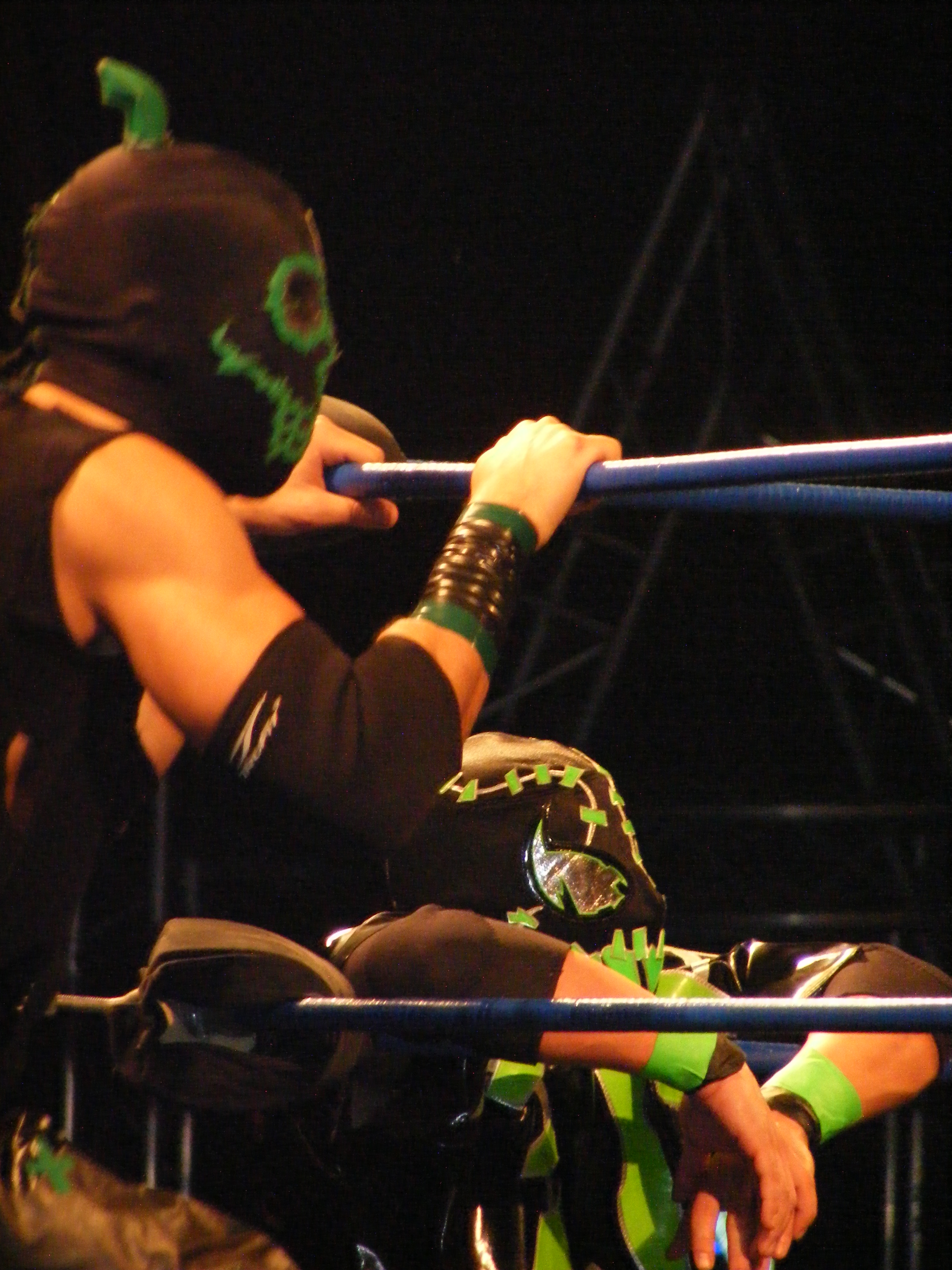 Professional wrestlers Hallowicked and Frightmare at a Chikara event.